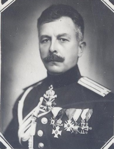 Bulgarian general Rashko Atanasov, 1931-1932